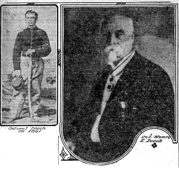 newspaper photo of Civil War veteran Henry E. Dosch